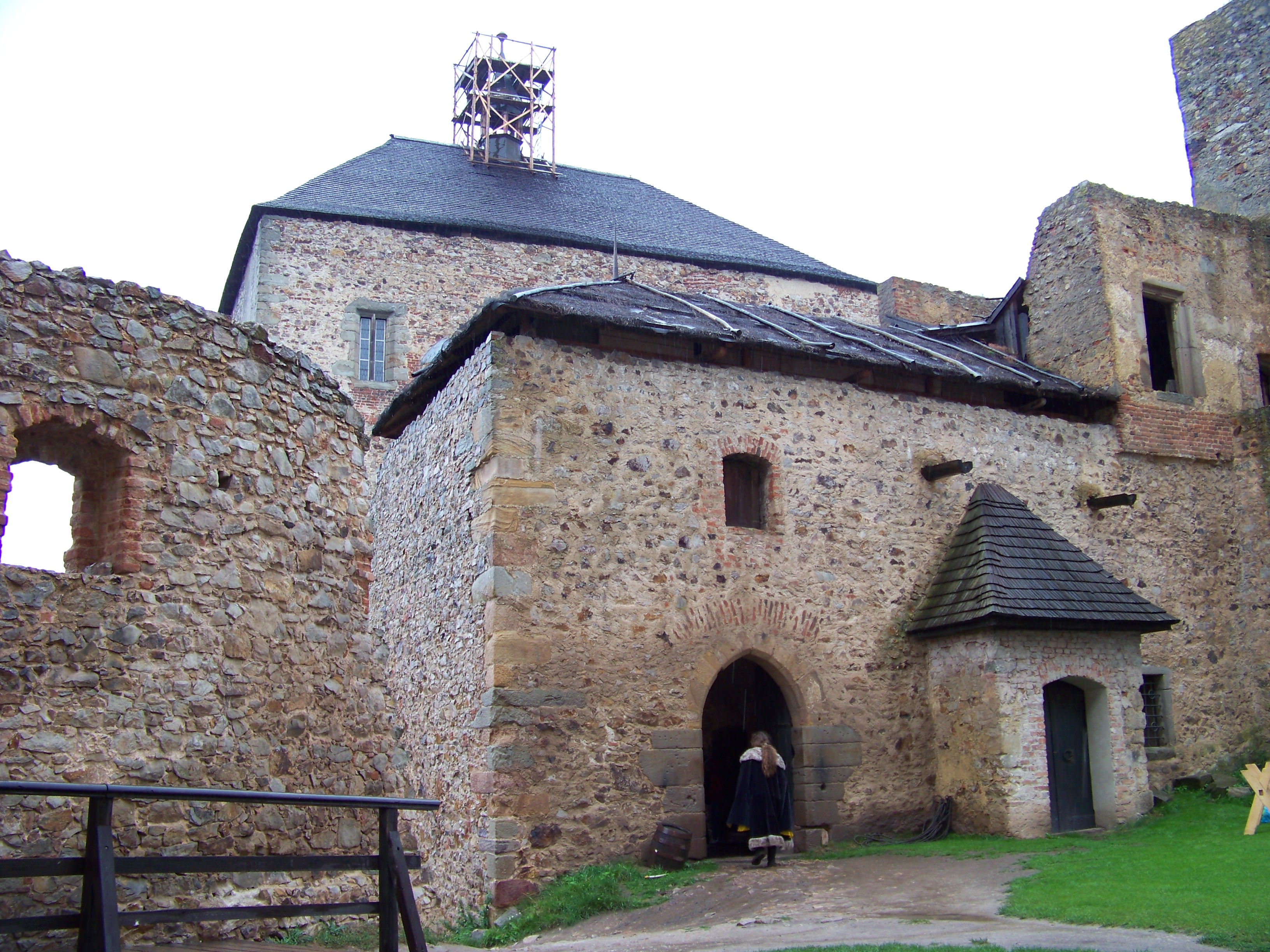 Točník, Beroun District, Central Bohemian Region, the Czech Republic. Točník Castle. - Google Maps - Google Earth